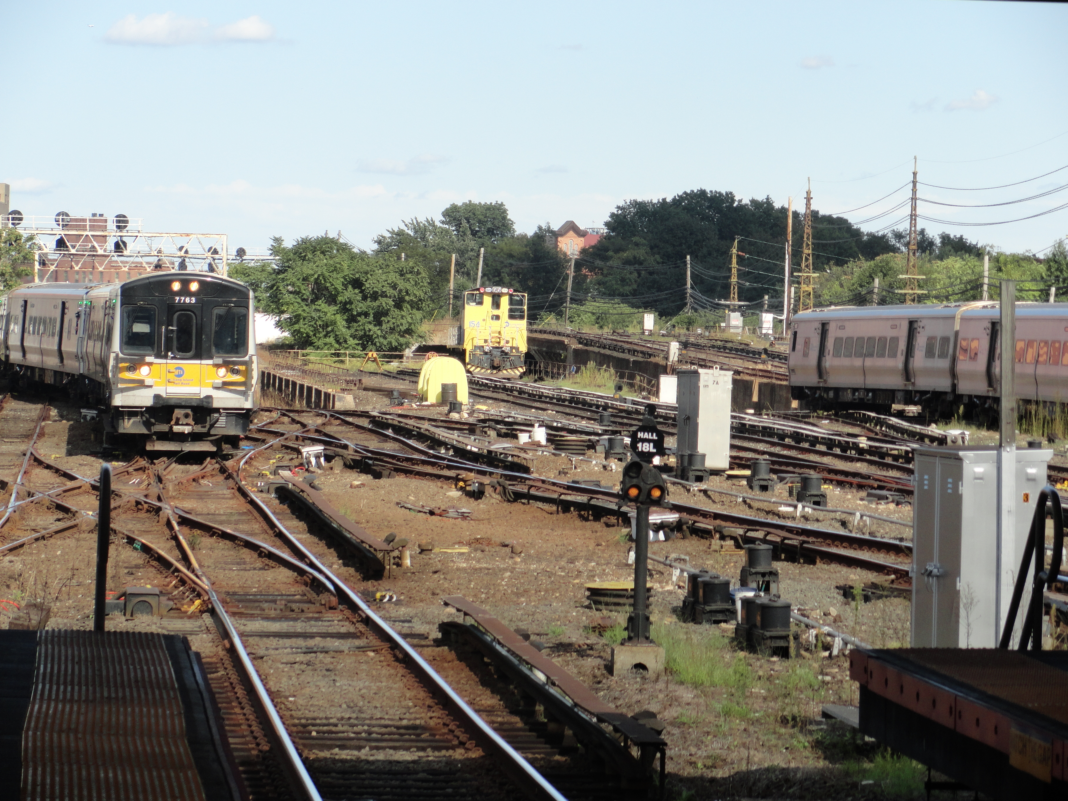 Jamaica Station, New York City